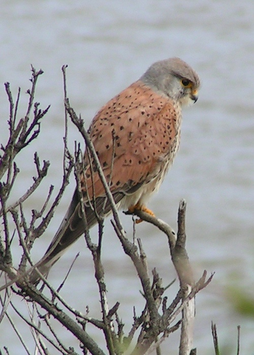 A male Common Kestrel in England.